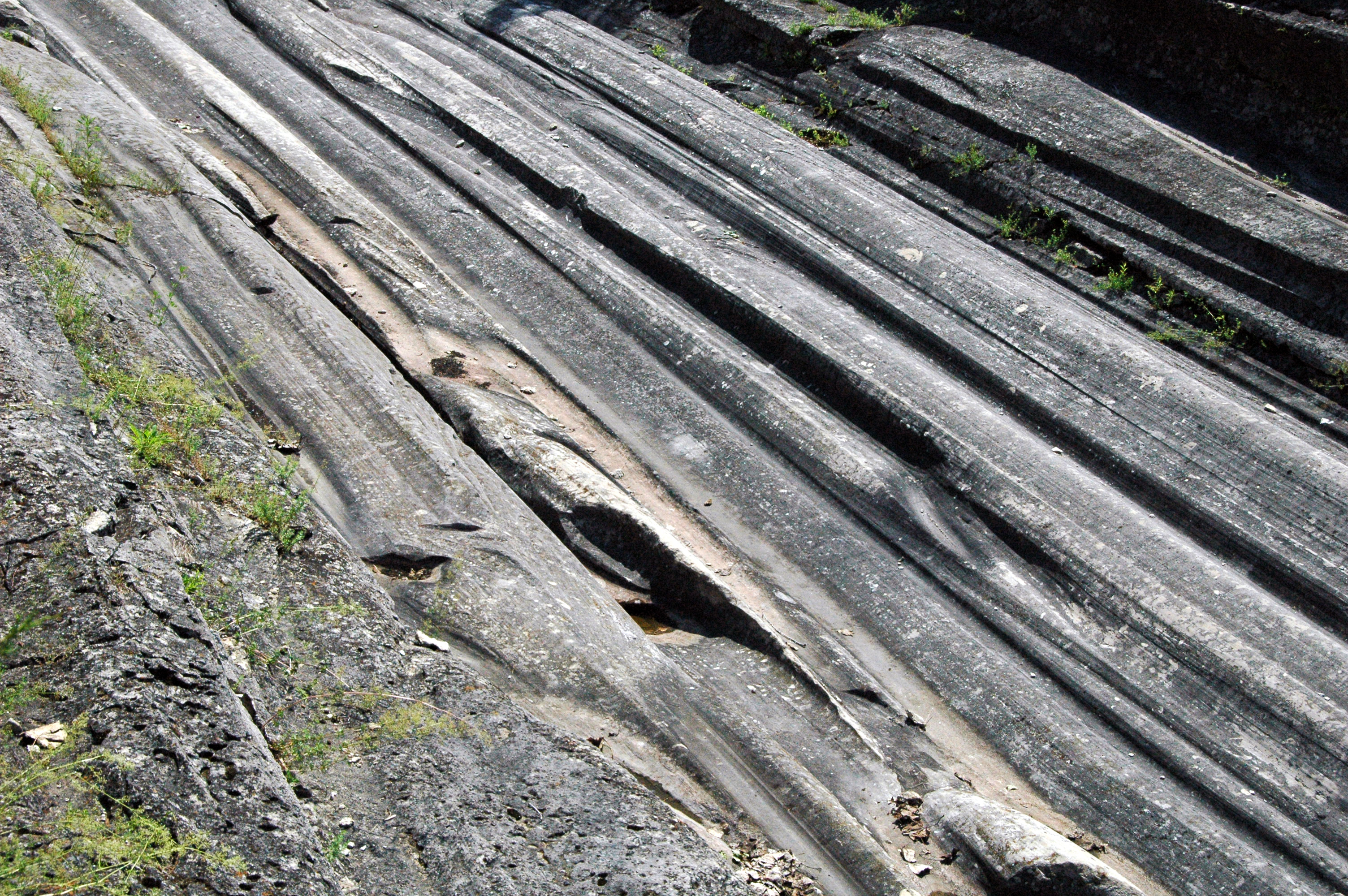 Glacial grooves in Columbus Limestone (lower Middle Devonian) at Glacial Grooves State Park, northwestern Kelleys’ Island, western Lake Erie, USA. These spectacular, world-class glacial grooves were carved out during the Pleistocene (the last Ice Age). Glaciers are rivers of ice. Ice is a mineral (H2O). Glacial ice is a rock (technically, a metamorphic rock). Despite being solid, ice does flow under certain conditions at the Earth’s surface. Occasionally, Earth experiences Ice Ages, during which extensive ice sheets cover and move over significant portions of the Earth’s surface. As ice moves over landmasses, it erodes underlying rocks and picks up small to large pieces of debris. This debris accumulates at the base of the ice sheet and scrapes bedrock as the glacier moves, resulting in glacial scratches (glacial striations) (= thin scratch lines on rock) and glacial grooves (= large channels incised in rock).